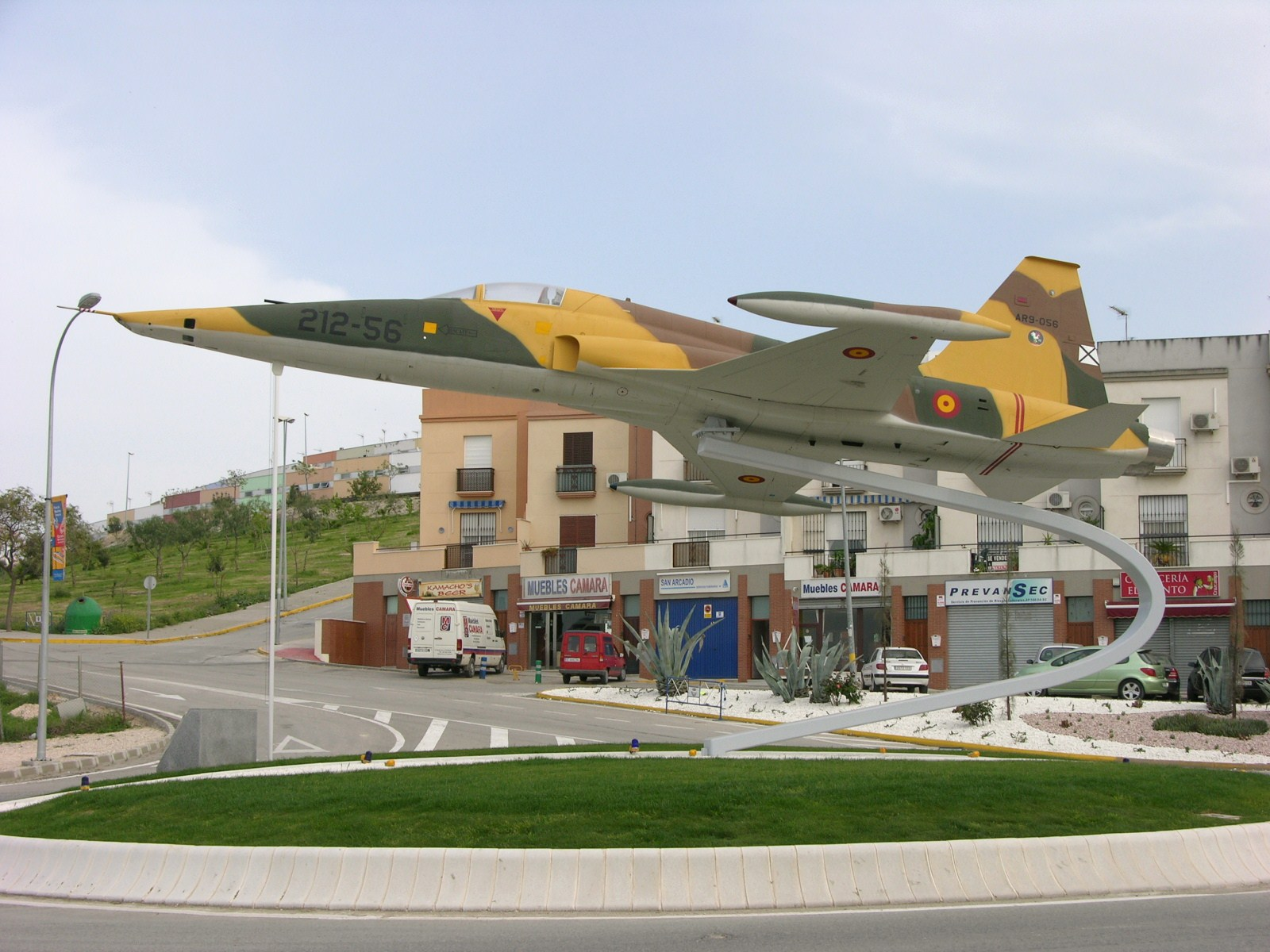 If you look closely at this one you can see that the roudabout has been turned into the world's shortest runway.